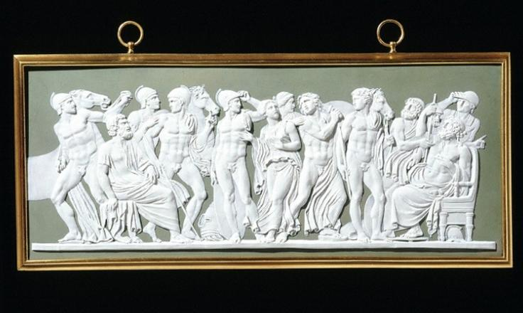 The Discovery of Achilles, about 1788, modelled by Camillo Pacetti V&A Museum no. 4938-1901 Techniques - Jasper with green dip and applied reliefs Artist/designer - Josiah Wedgwood and Sons Ltd. Place - Etruria (Stoke-on-Trent) Dimensions - Height 15.87 cm, Width 38.42 cm Object Type - The relief was probably intended for incorporation into a chimney-piece. According to Josiah Wedgwood, who manufactured it, such reliefs were used 'in the composition of a great variety of chimneypieces'. Ownership & Use - Wedgwood claimed that his panels of this type could 'be seen in the houses of many of the first nobility and gentry in the kingdom.' He had high hopes that his Jasper reliefs would be taken up by Robert Adam and other leading architects of the day. However, he complained to his partner that he had failed to 'prevail upon the architects to be godfathers to our child ...' Design & Designing - Around 1788 Wedgwood set up a modelling studio in Rome to supply him with casts and copies of antique reliefs for copying in Jasper. This was superintended by Henry Webber, previously the head of the ornamental department at Wedgwood's factory. Webber produced little in Italy, but employed a number of Italian artists to model reliefs in wax. Among them was Camillo Pacetti (1758-1826), who was described as 'a proud imperious fellow'. Pacetti modelled this piece, copying it from a relief carved in marble on a Roman sarcophagus of the 3rd century AD.